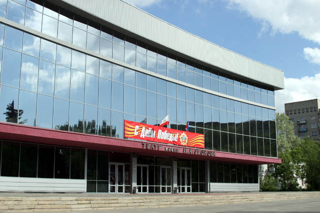 Saratov. Saratov Academic Performance theater drama